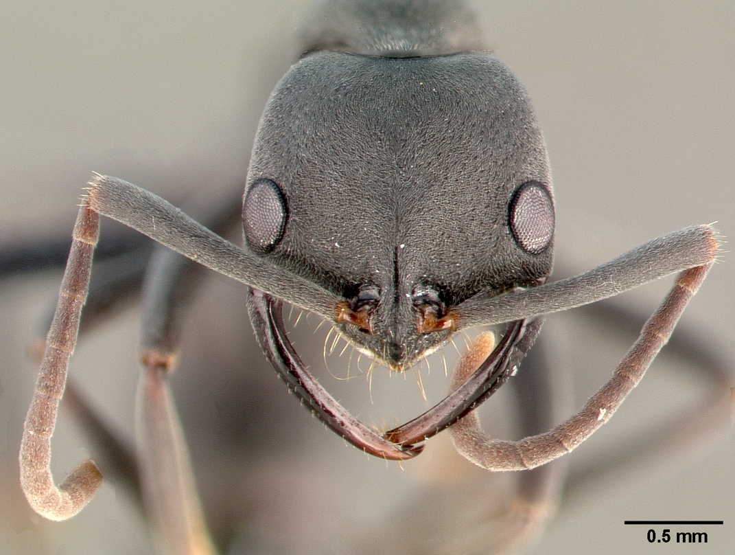 Head view of ant Leptogenys falcigera specimen casent0003814.